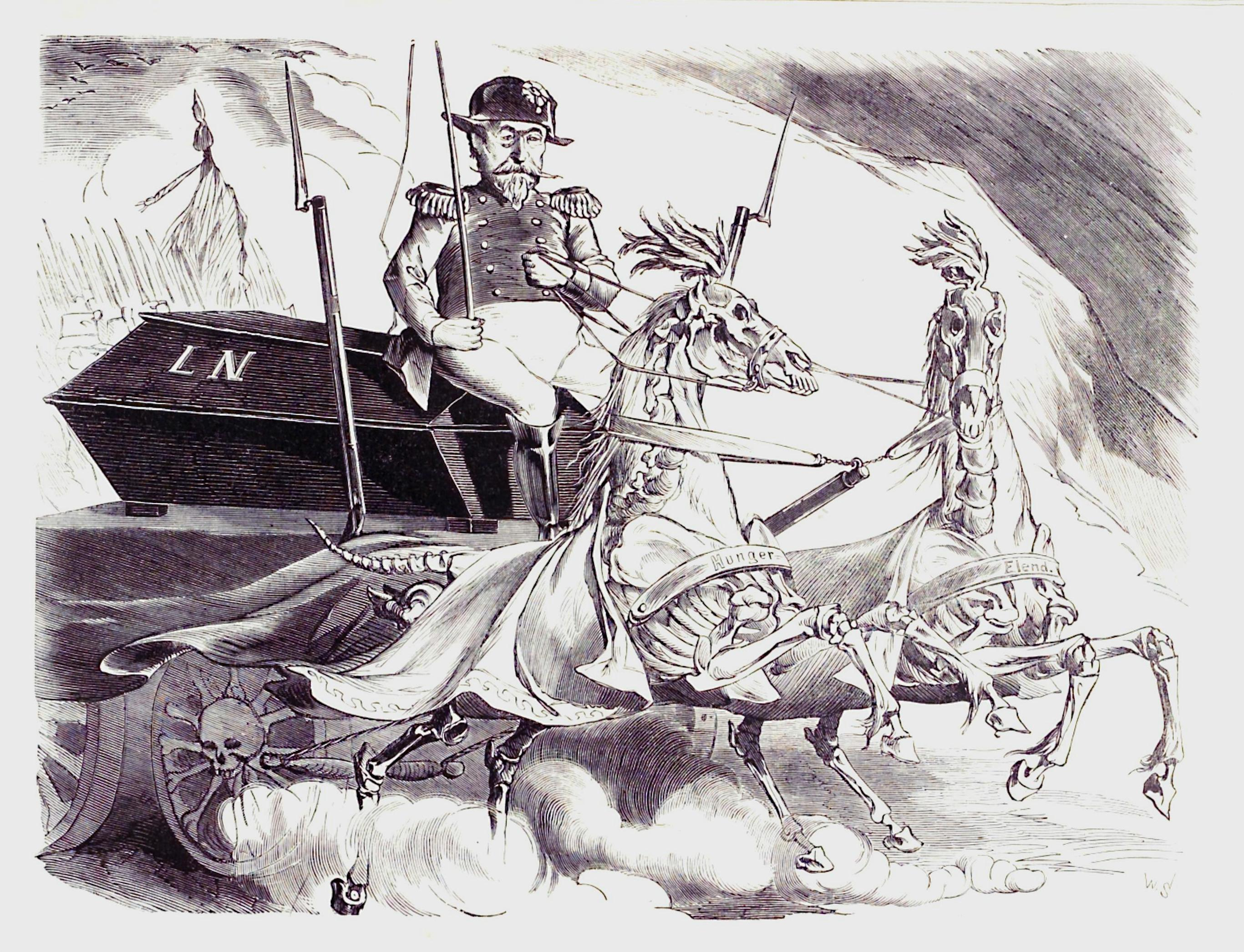 Cartoon from the satirical magazine Kladderadatsch. The horse skeletons are probably a citation from Joseph Noel Paton's drawing "The Commander-in-Chief of British Forces in the Crimea, and staff" dating back to 1855.